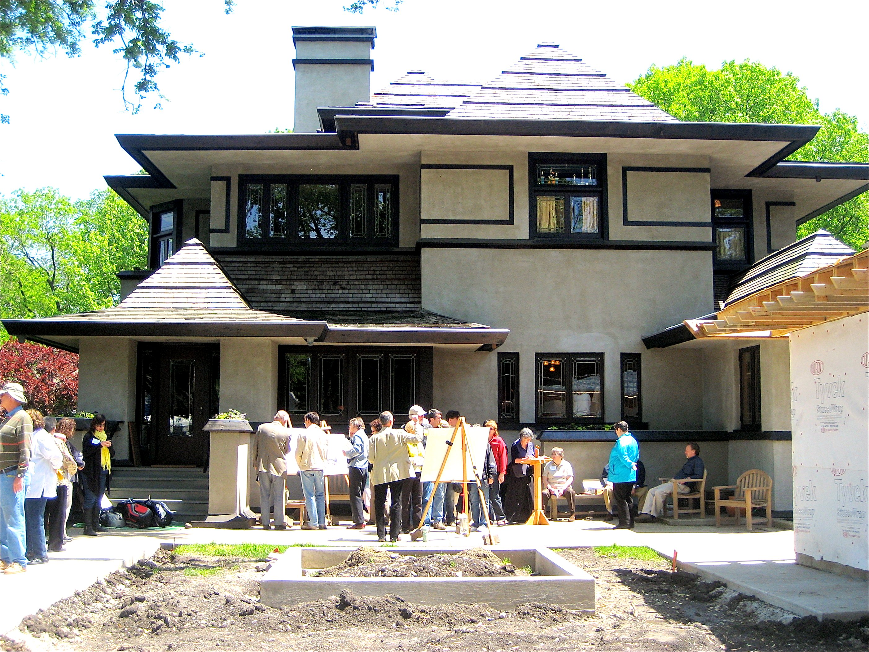 Backyard view of the Edward R. Hills House (also known as the Hills-Decaro House) remodeled by Frank Lloyd Wright. In the foreground at right is a garage which was under construction in 2009. it was part of a larger exterior renovation which included the partial reconstruction of a Frank Lloyd Wright pavilion and pergola (see a rendering of the design).